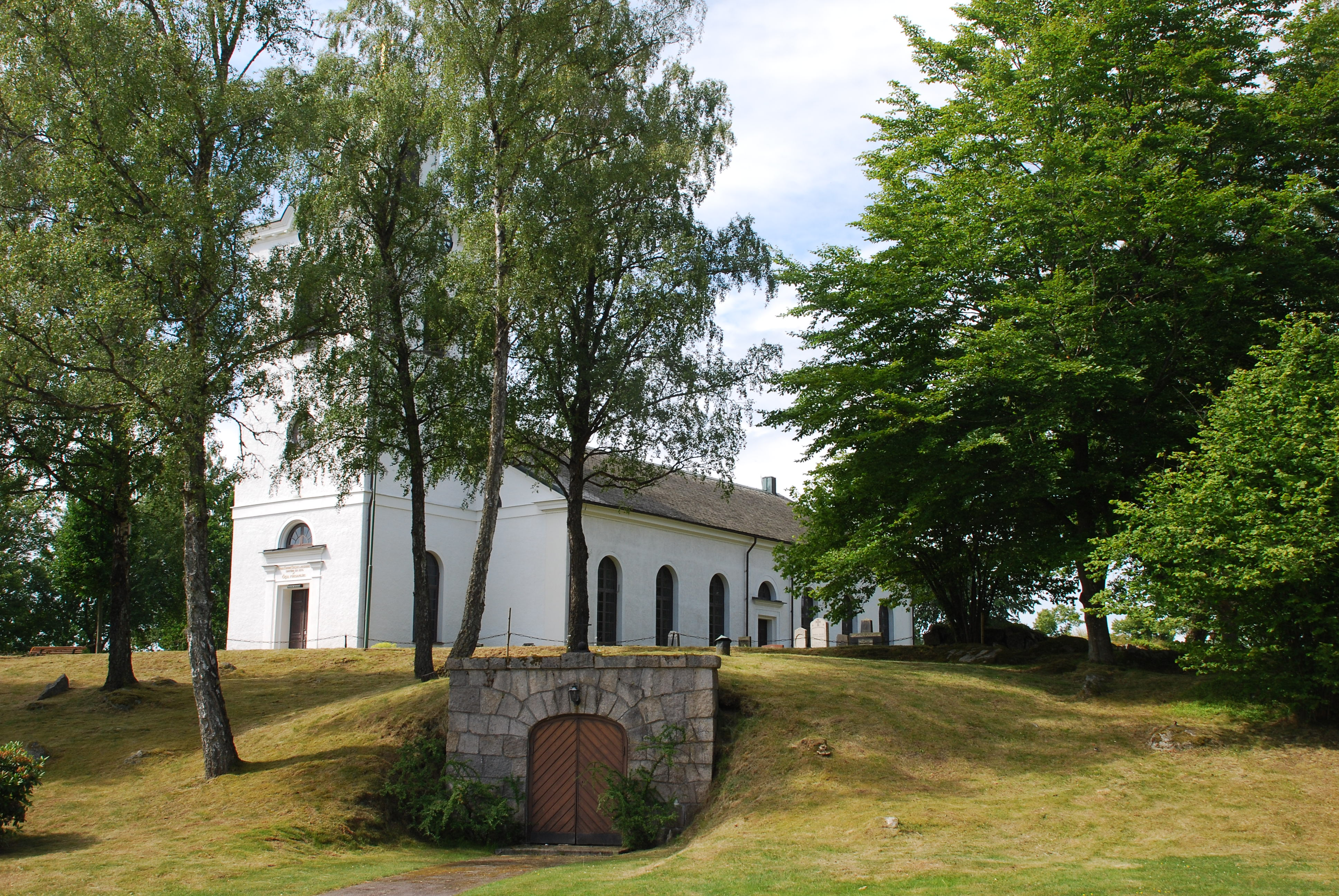 Cemetery of the church of Öja near Växjö